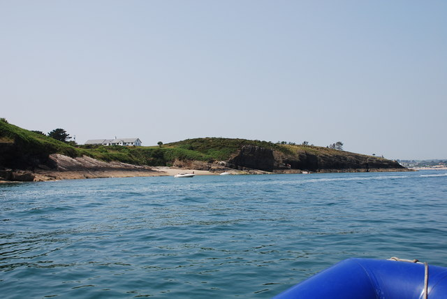 Penrhyn Du headland & Porth Bach